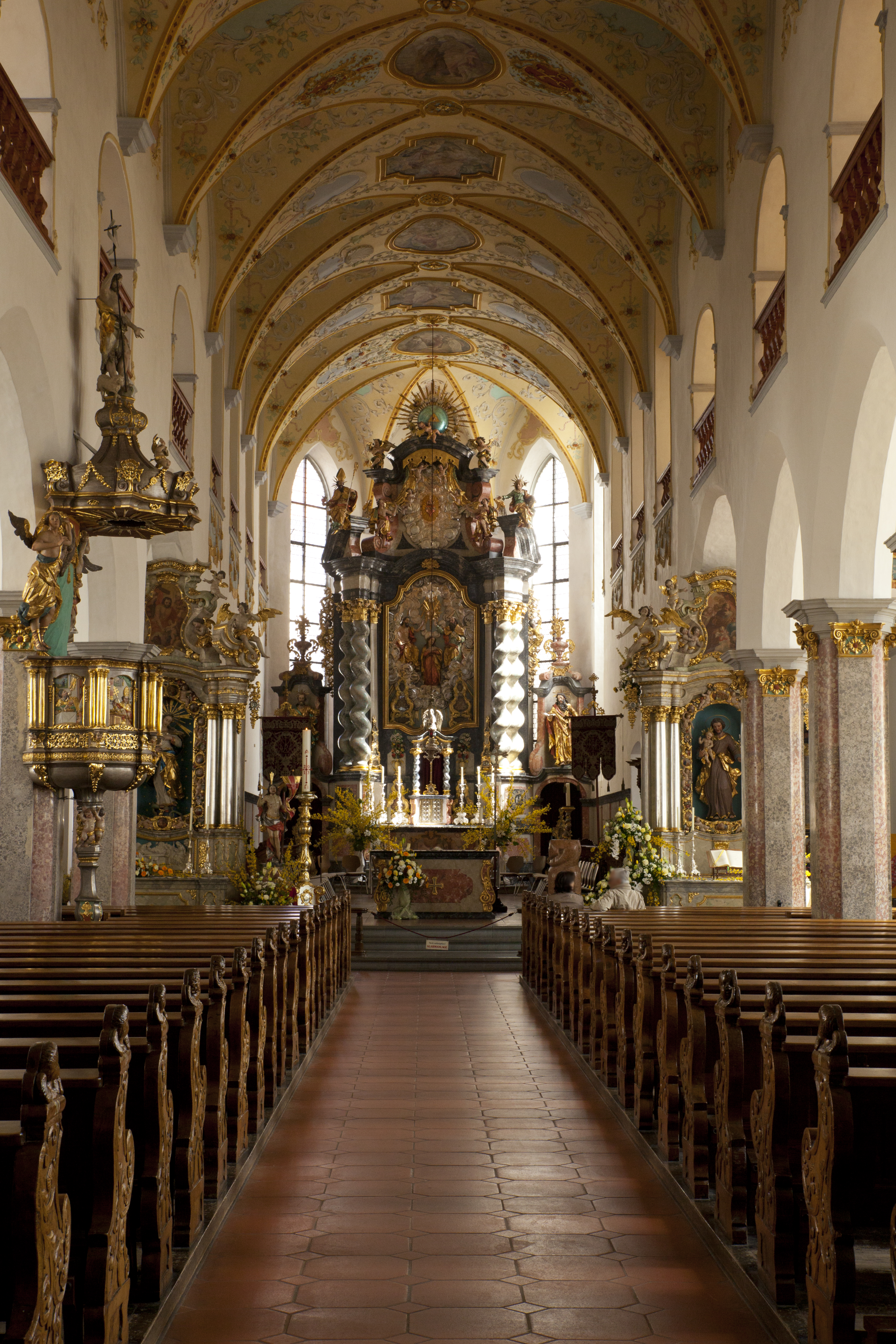 Nave and high altar of the Church of Saint Peter in Bad Waldsee